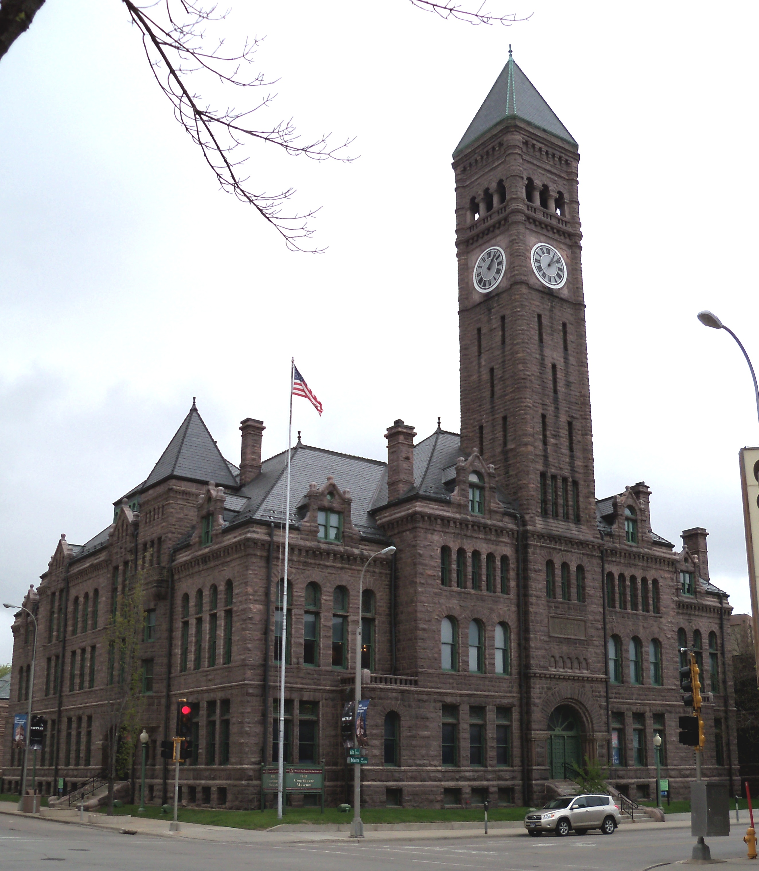 Old Minnehaha County Courthouse in Sioux Falls, South Dakota, USA. Currently a museum.